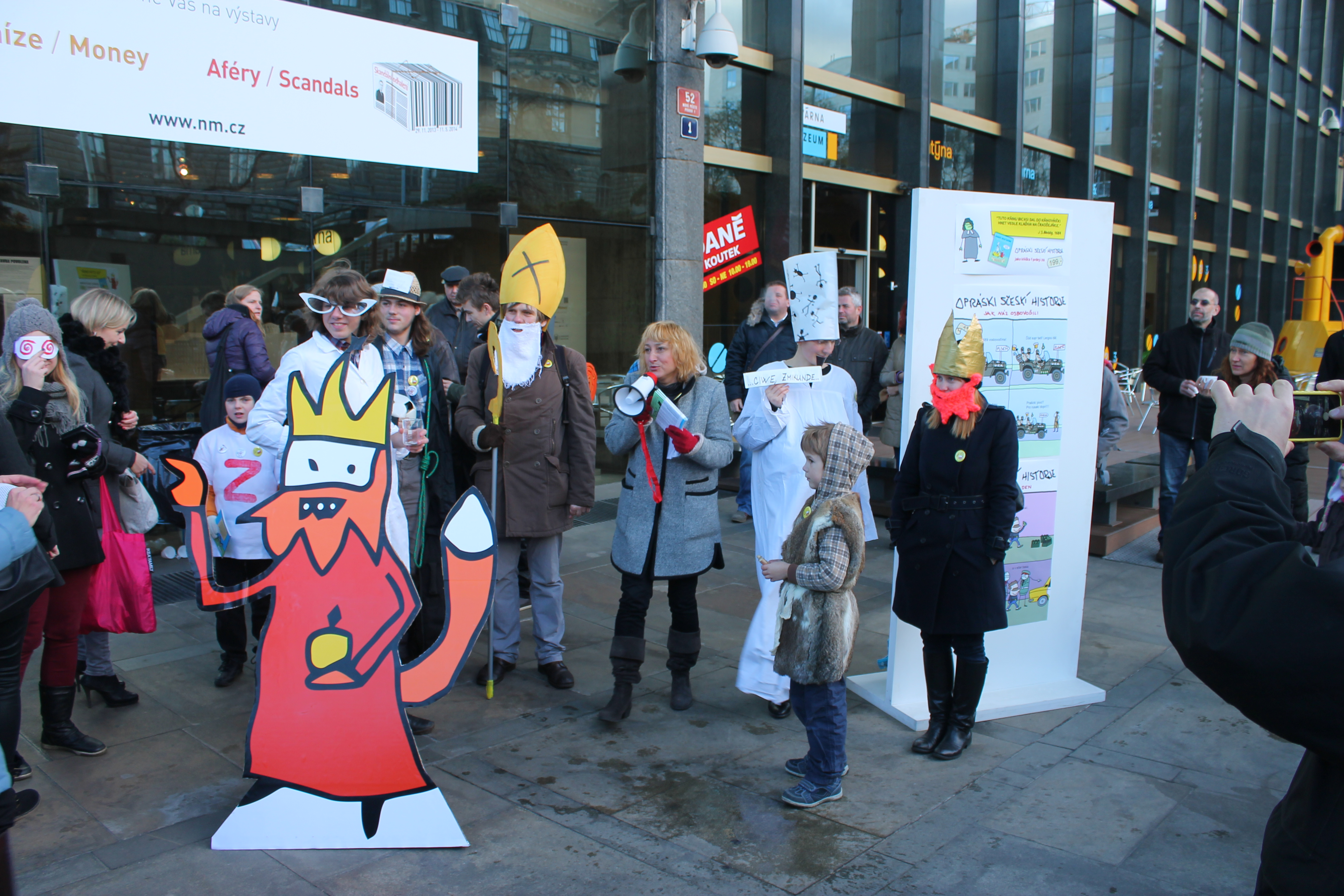 Launch of the book Opráski sčeskí histoje* (The Pictures of the Czech History – however the name is misspelled – like The Pitcures ofthe Checz hystory) in front of the new building of the National Museum, Prague, Czech Republic. There is cartoon character of the emperor Sigismund of Luxemburg (misspelled as Simisgund) in the left.